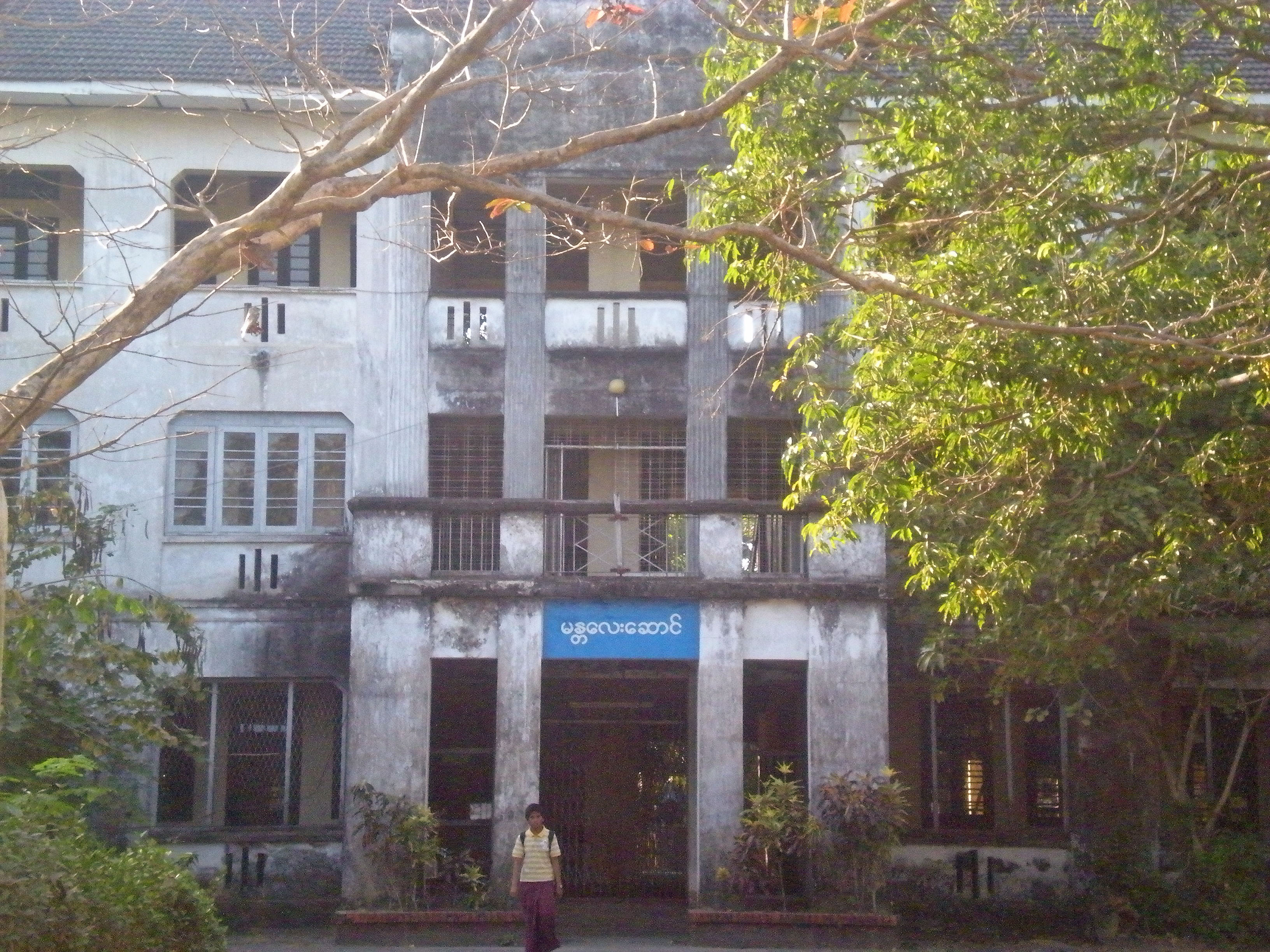 Mandalay hall, Geology Department